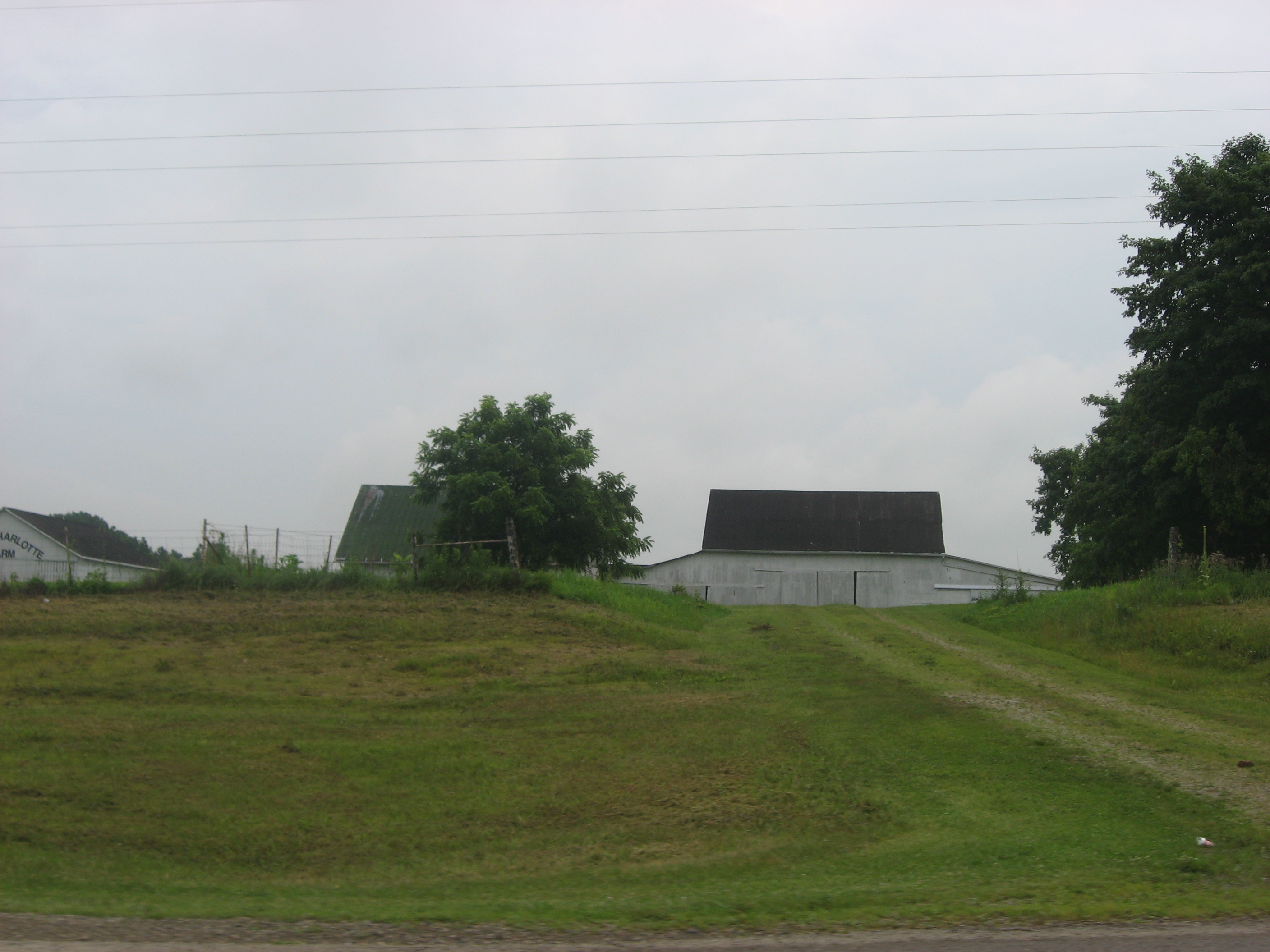 Barns at the Gill-Morris Farm, located at 10104 State Route 56 southeast of Circleville in Salt Creek Township, Pickaway County, Ohio, United States. The farm complex is listed on the National Register of Historic Places.